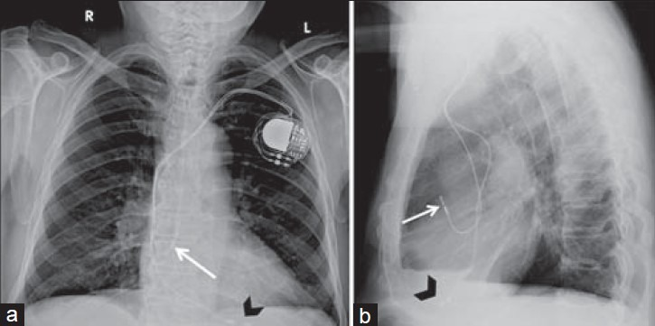 Dual-chamber pacemaker. 89-year-old male with a dual-chamber pacemaker placed via the left subclavian vein with the generator in the subcutaneous left infraclavicular fossa. Chest X-ray (a) PA view and (b) LAT view show the right atrial lead is inferiorly directed and takes a “J loop” curve with tip pacing the right atrial appendage (white arrow). Right ventricle lead directed inferiorly through the right atrium and tricuspid valve, then courses anteriorly and inferiorly with the tip at the right ventricular apex (black arrowhead). In single-chamber pacemakers, only the right atrial or ventricular lead is present.